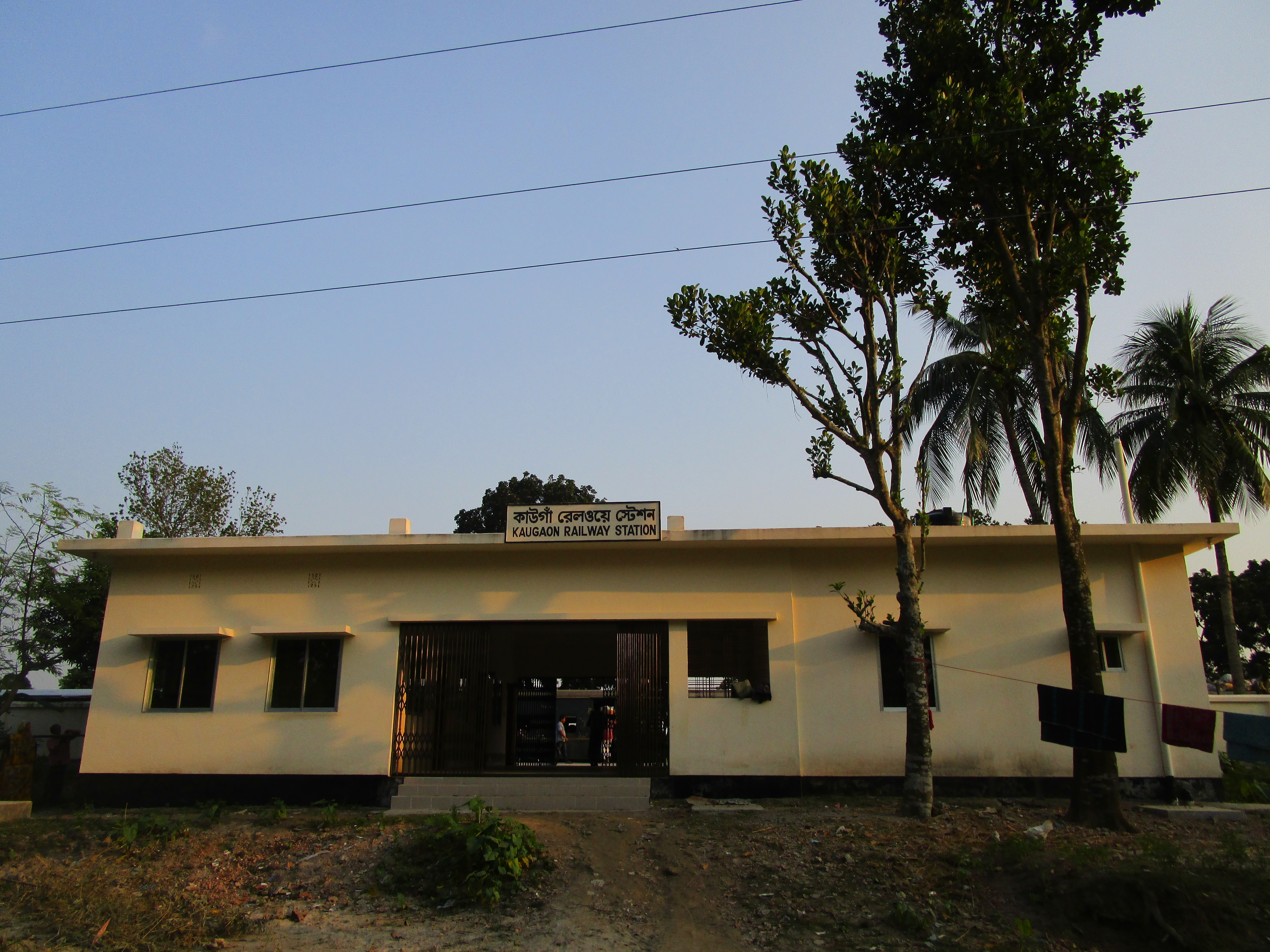 The office of Kaogaon Railway Station at Chirirbandar Upazila.